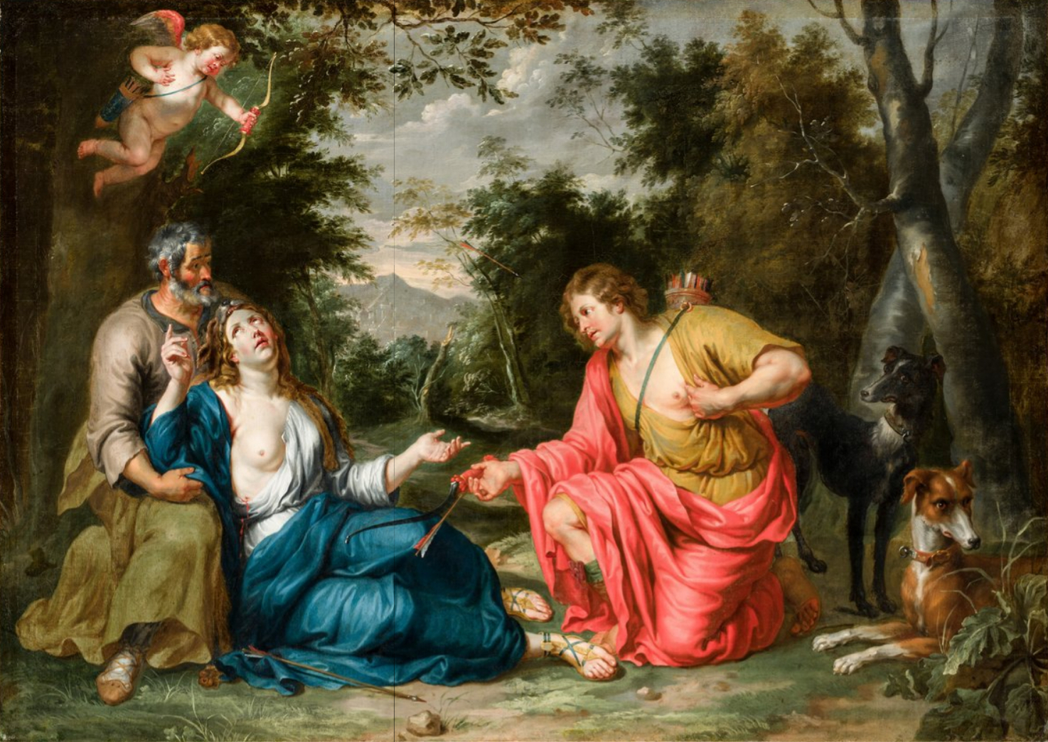 Silvio and Dorinda